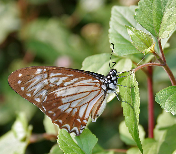 Lesser Zebra Pathysa macarens at Samsing in Darjeeling district of West Bengal, India.